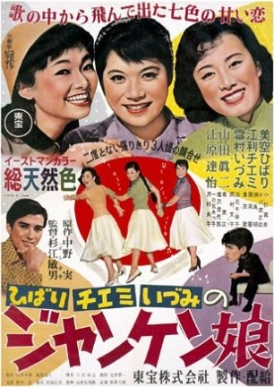 Movie poster for 1955 Japanese movie So Young, So Bright (ジャンケン娘 Janken musume).